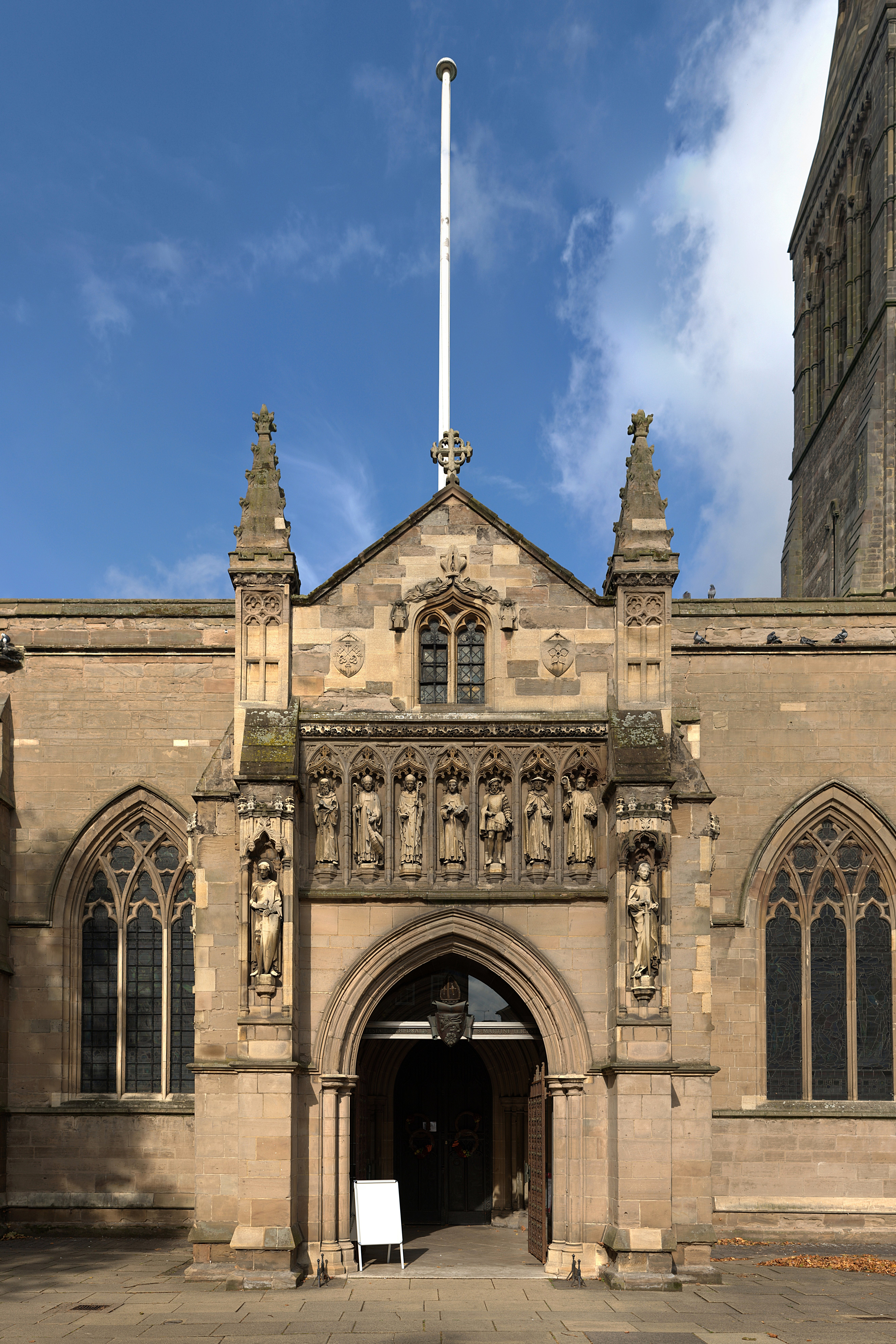 The Vaughan Porch [1] of Leicester Cathedral by George Frederick Bodley (1897). Nikolaus Pevsner described the porch as 'ornate yet dignified' in his Buildings of England (Leicestershire and Rutland volume). The seven central statues are (left to right) of St Cuthlas, St Hugh of Lincoln, Robert Grosseteste, John Wycliffe, Henry Hastings, William Chillingworth and William Connor Magee. The two statues at the side are of St George (left) and St Martin of Tours (right).